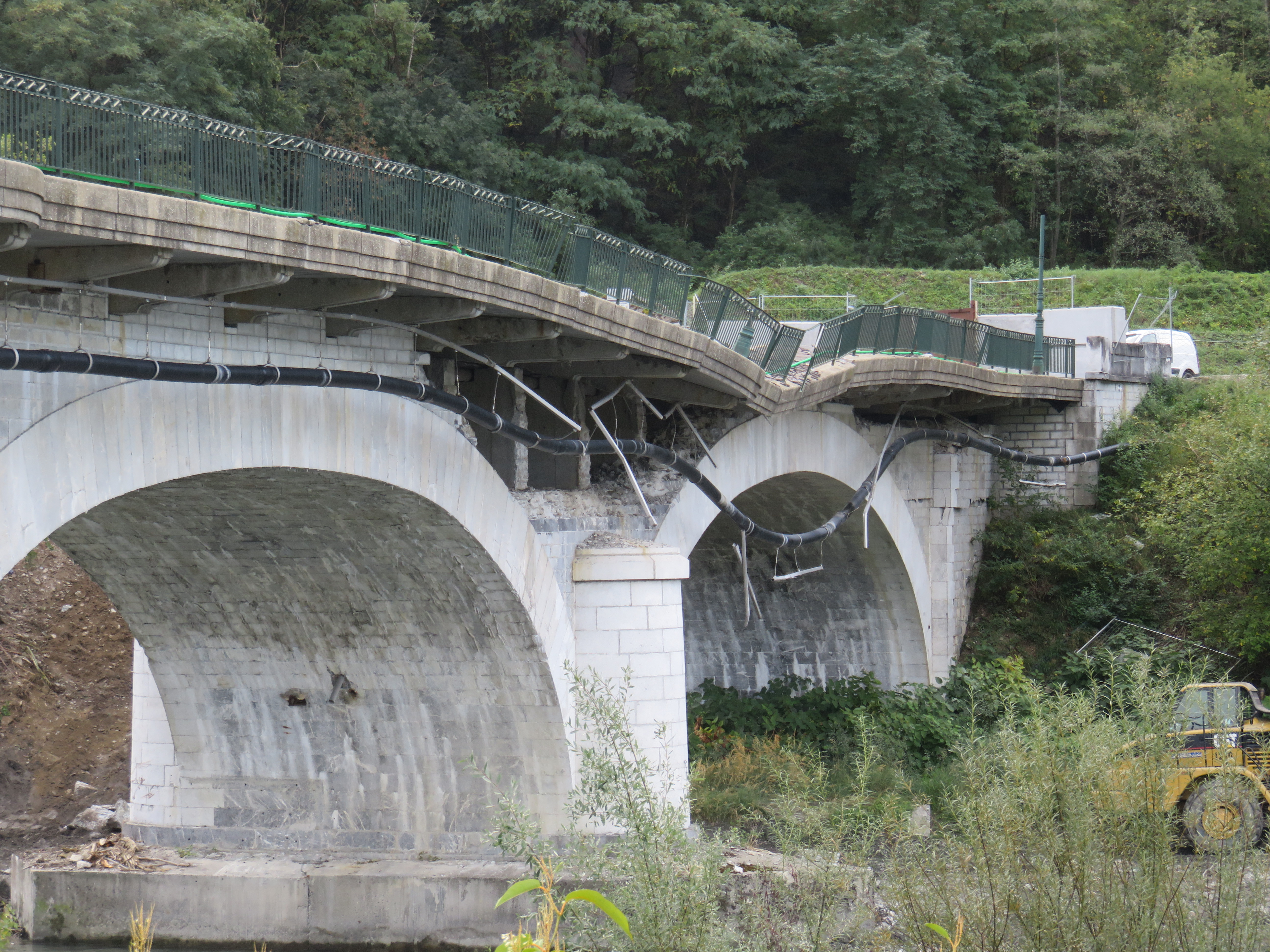 The Pont Albertin (Grignon, France) on October 3, 2018, some monts after the explosion which seriously damaged it (on May 13, 2018).